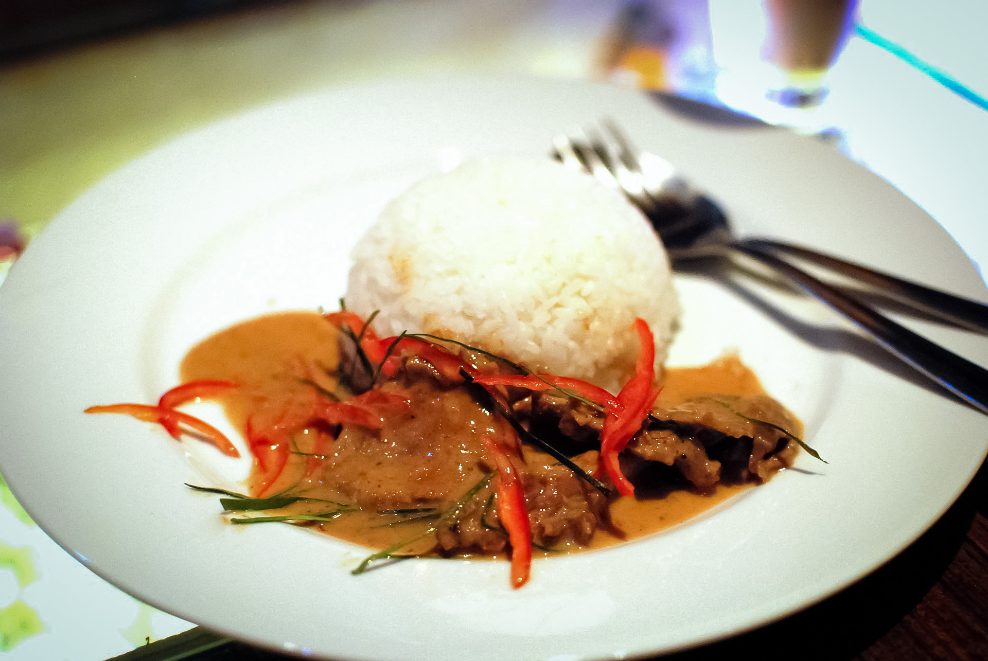 Phanaeng nuea (Thai script: พะแนงเนื้อ) is beef in phanaeng curry, a mild and creamy curry sauce containing coconut milk, fresh as well as dried herbs and spices, and sometimes also peanuts. It is often garnished with shredded fresh kaffir lime leaves and strips of (mild) red chillies for additional taste and colour.